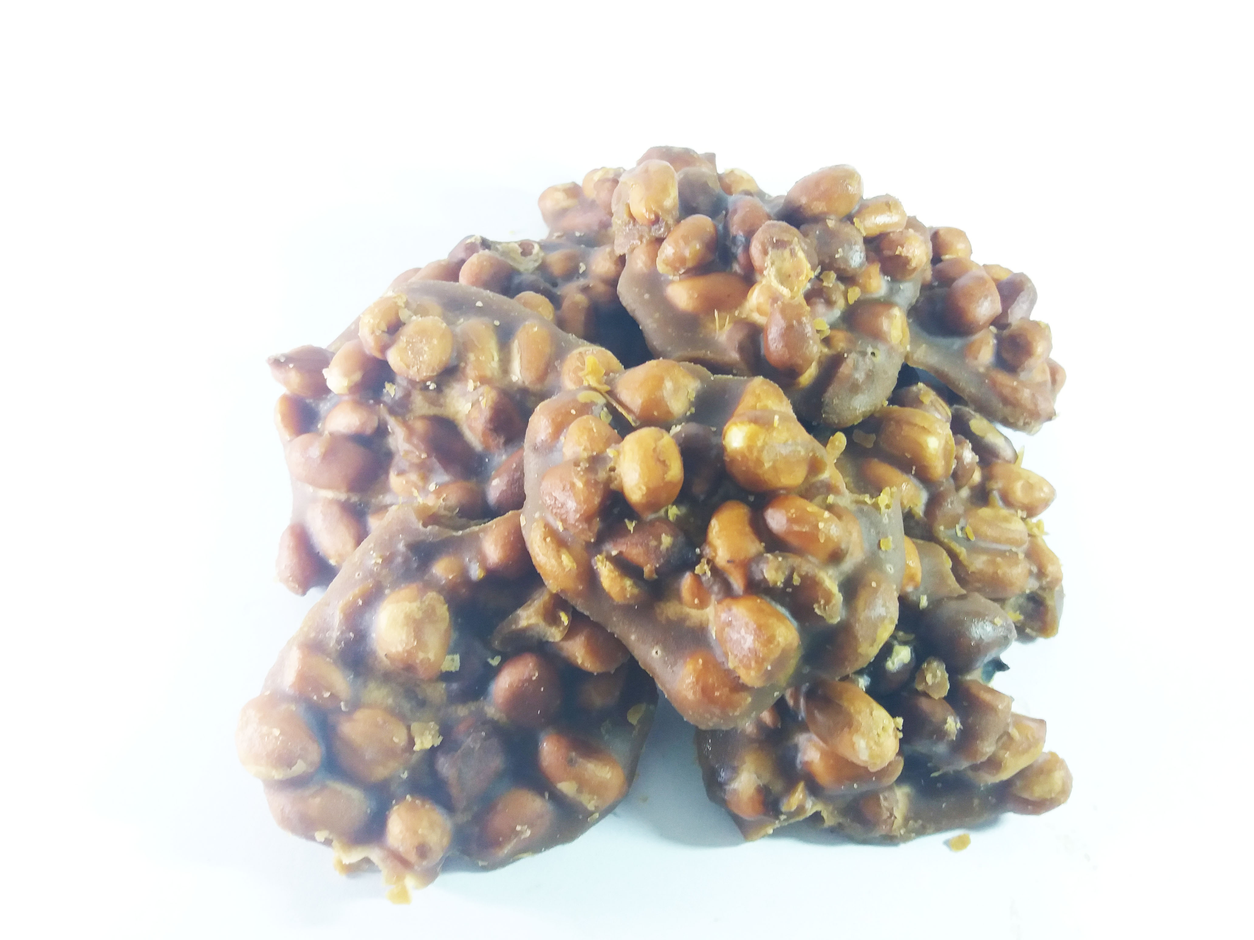 Ampyang is traditional cake from Indonesia. This cake is made from palm sugar and nut.